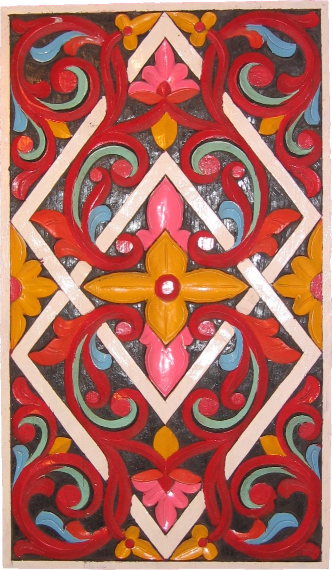 Photo by MichaelJLowe of a private carving from Pandai Sikek, West Sumatra, Indonesia.